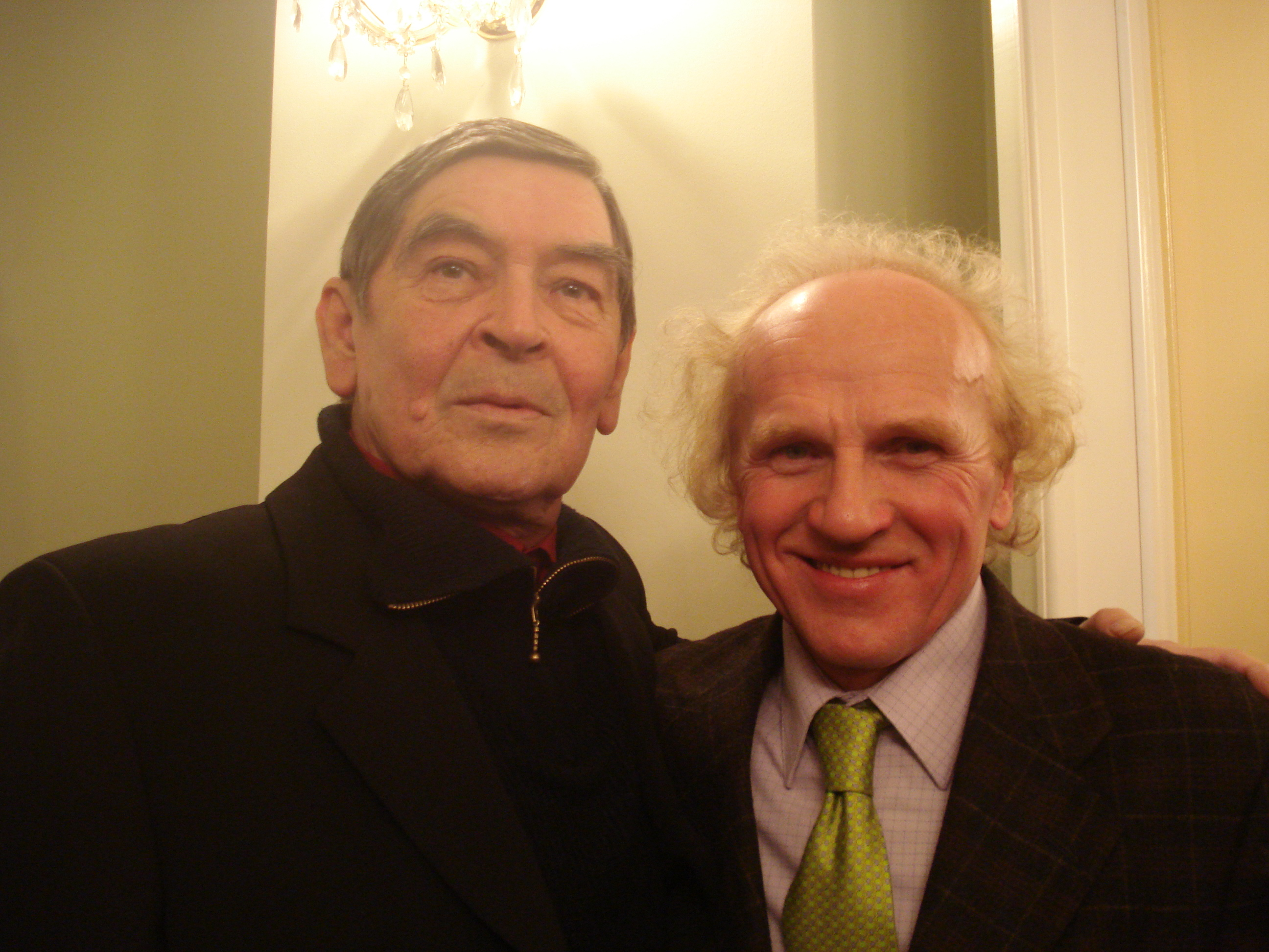 Vladimir Jefremov (actor) and Vladimir Tarasov (musician)